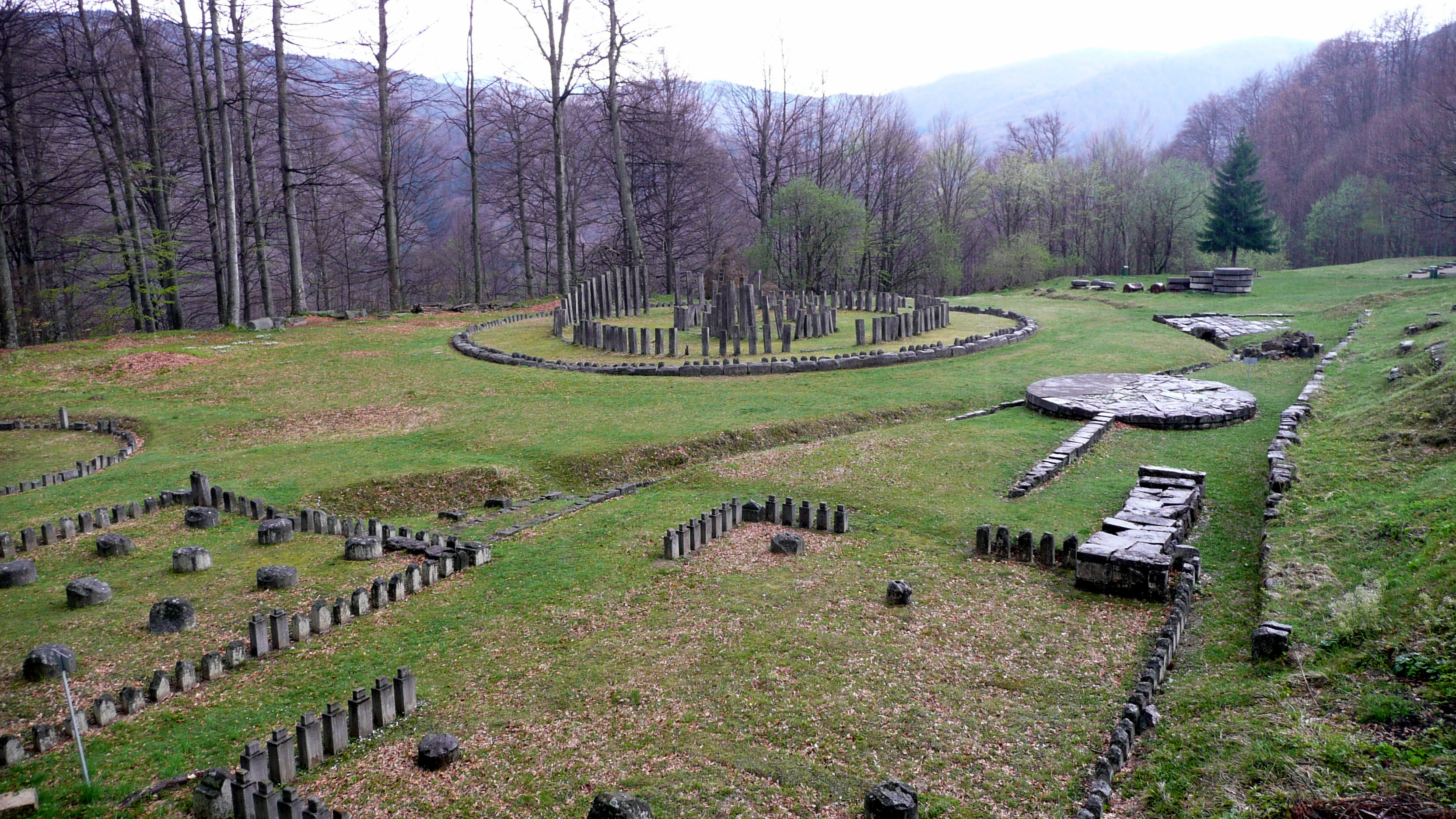 Sarmizegetusa Regia, Romania